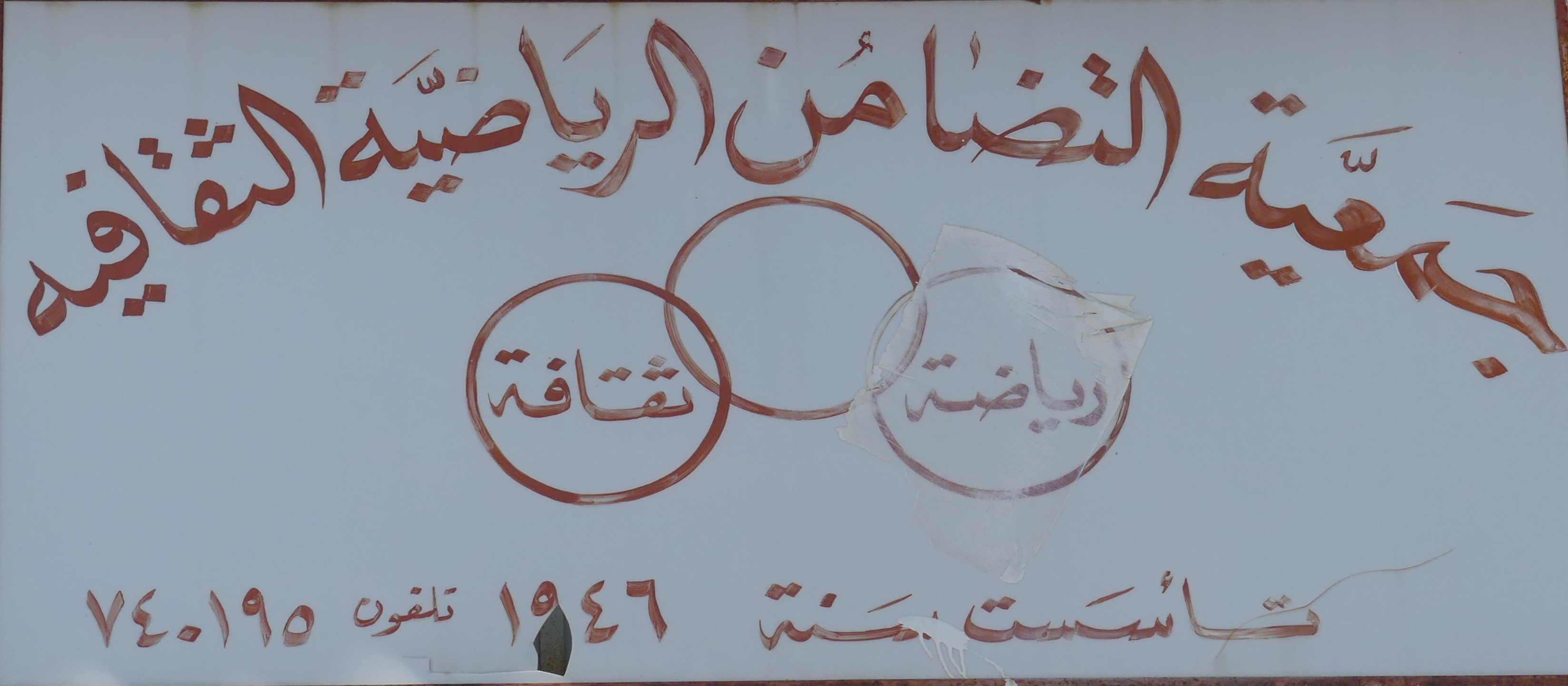 Sign of the Tadamon Sour Sporting Club on the balcony of its club home at the entrance of the Old Town in Tyre/Sour, Southern Lebanon, epmphasizing that it is also a cultural association, founded in 1946